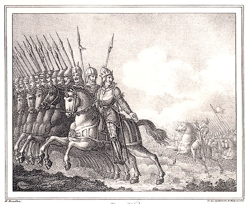 Captioned as "Rolf Krake sår guld på Fyrisvall", according to the source page. Etching by Hugo Hamilton, depicting Hrólfr Kraki spreading gold to escape the Swedes. Original image size approximately 17 x 22 cm.